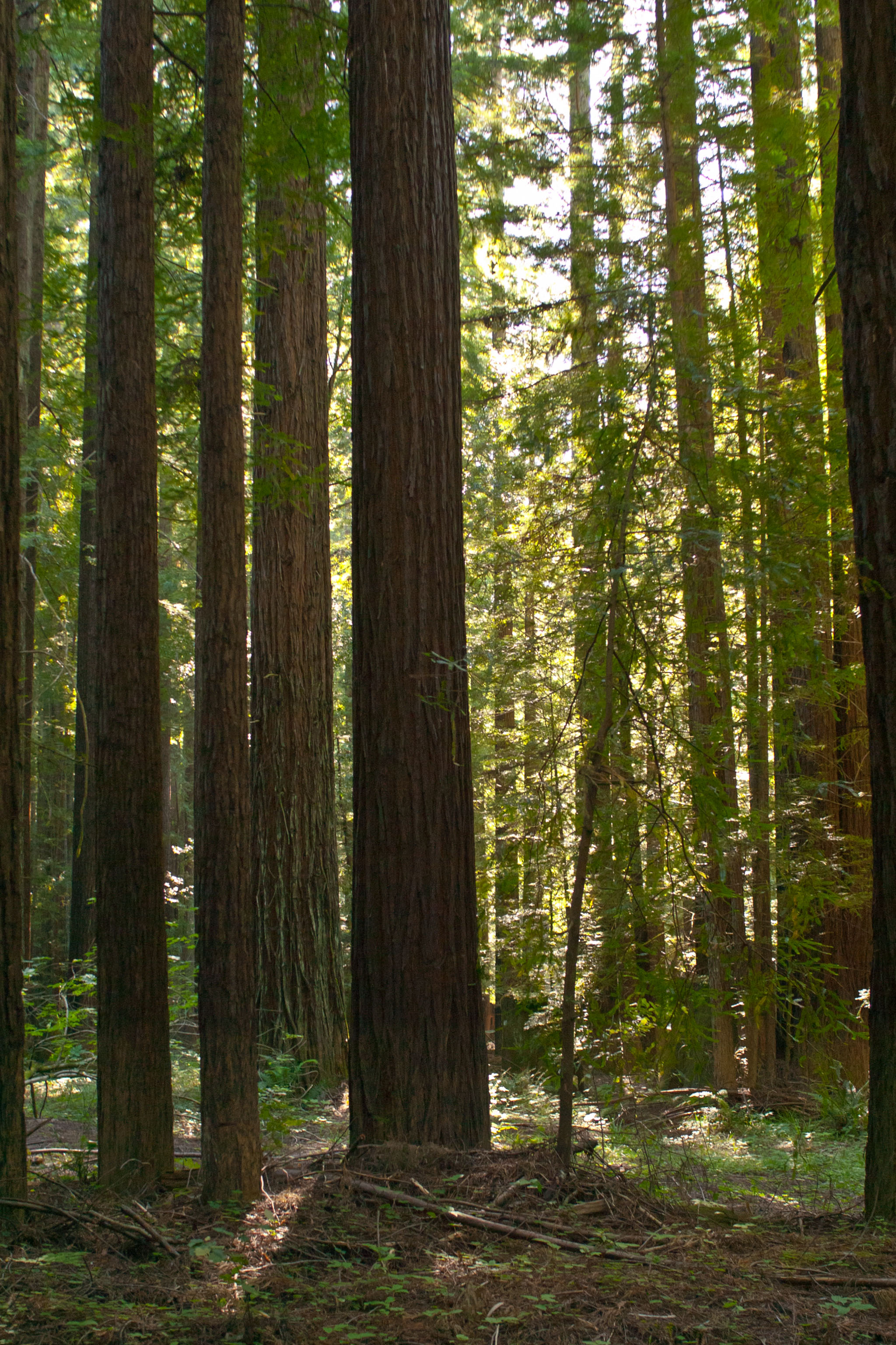 Second-growth coast redwoods (Sequoia sempervirens) in Navarro River Redwoods State Park, Mendocino County, California.